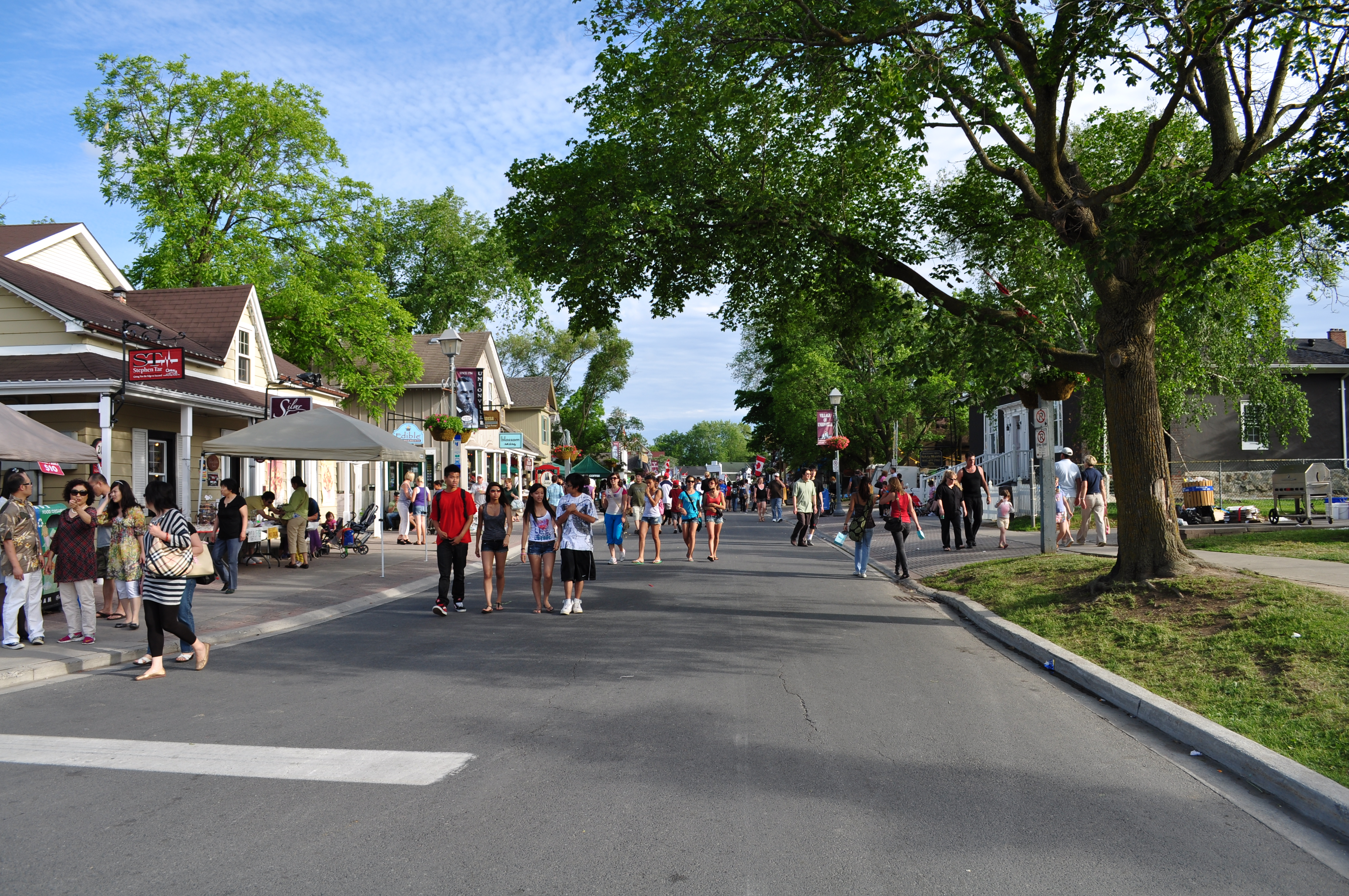 Unionville Festival (Main Street Unionville Markham, Ontario, Canada)